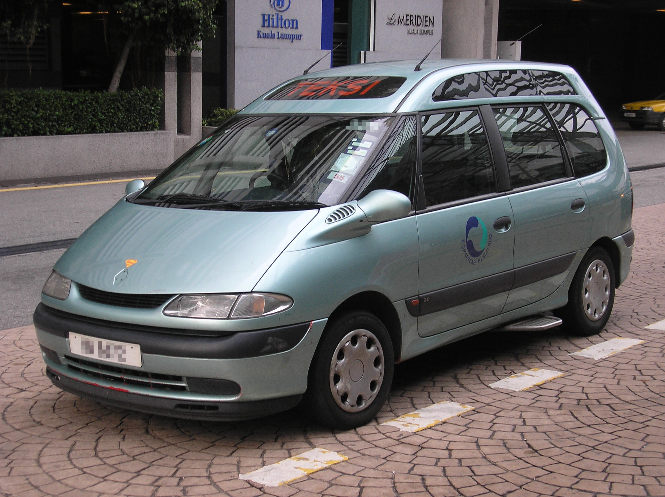 An Enviro 2000 NGV taxi, based on the 3rd-gen Renault Espace, in Kuala Lumpur, Malaysia. Note the removed Renault marque at the front and the step at the rear door.